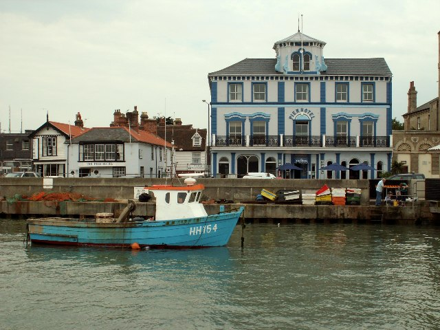 Pier Hotel, Harwich, Essex. This picture was taken from the Ha-penny Pier at a lovely part of Harwich by the old quay.